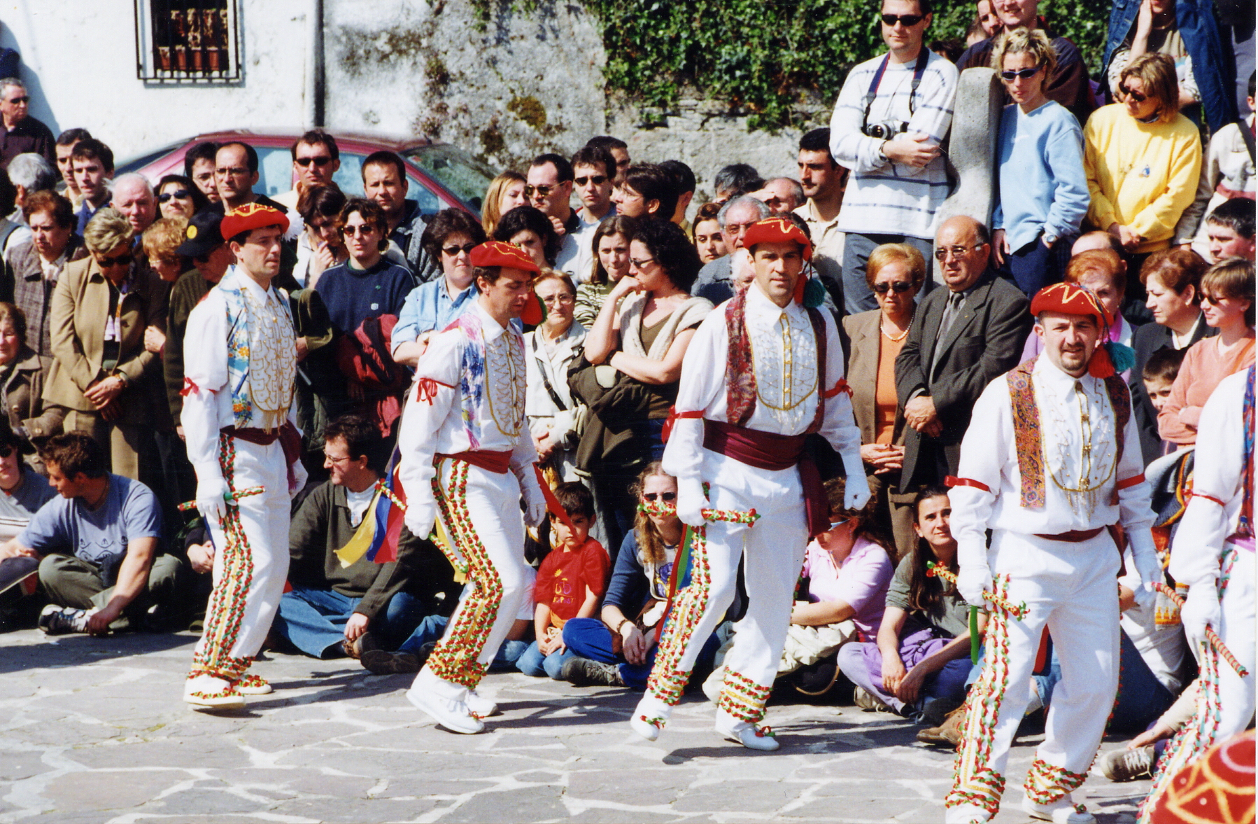 Jauziak named basque dance in Luzaide.